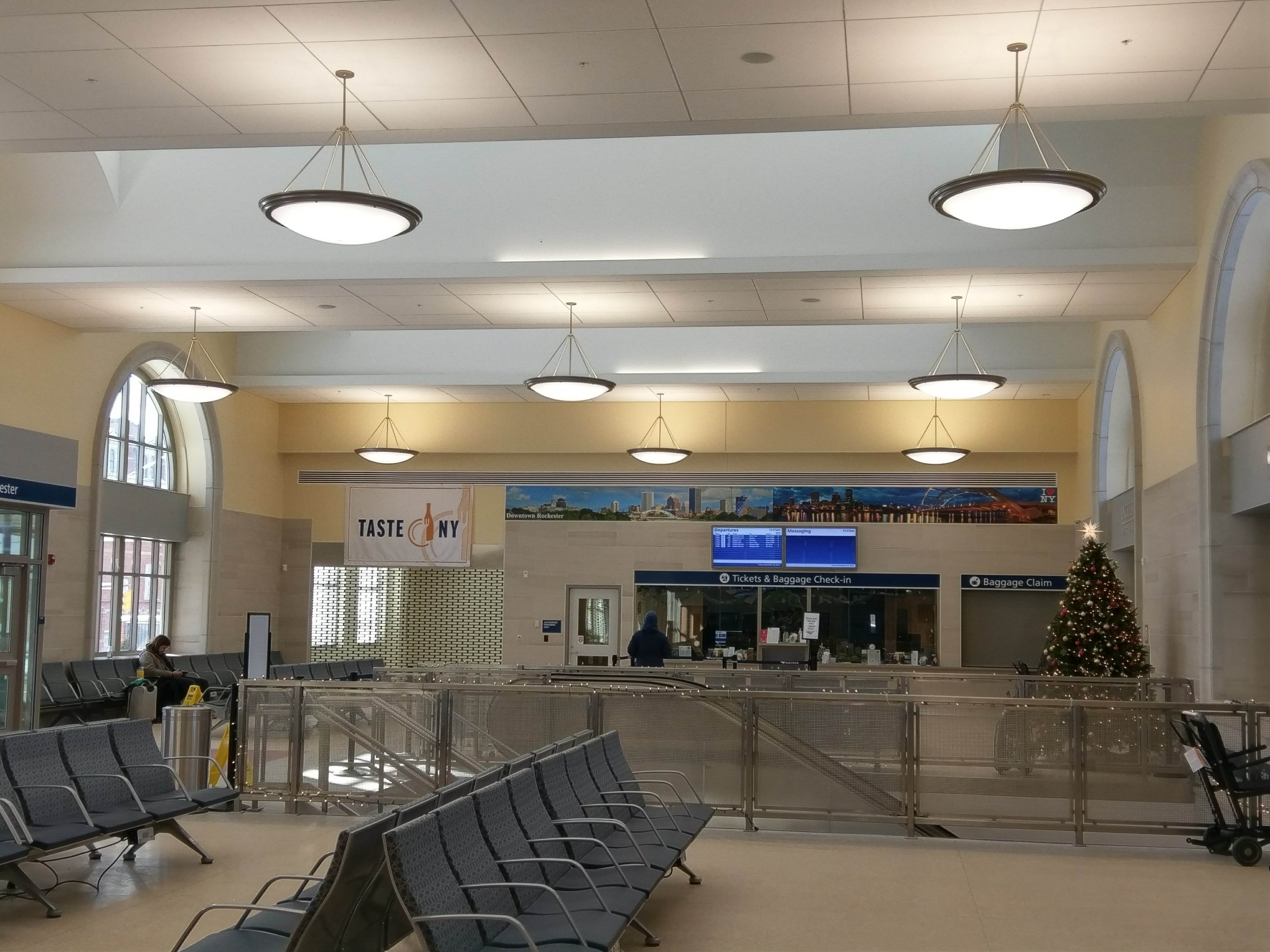 The interior of Rochester Station in Rochester, New York.